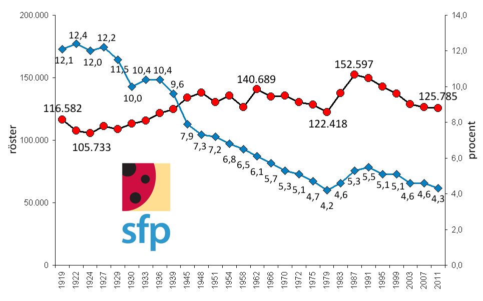 Swedish People's Party of Finland / Svenska folkpartiet i Finland / Suomen ruotsalainen kansanpuolue: Votes and percentage of national vote (1919–2011)